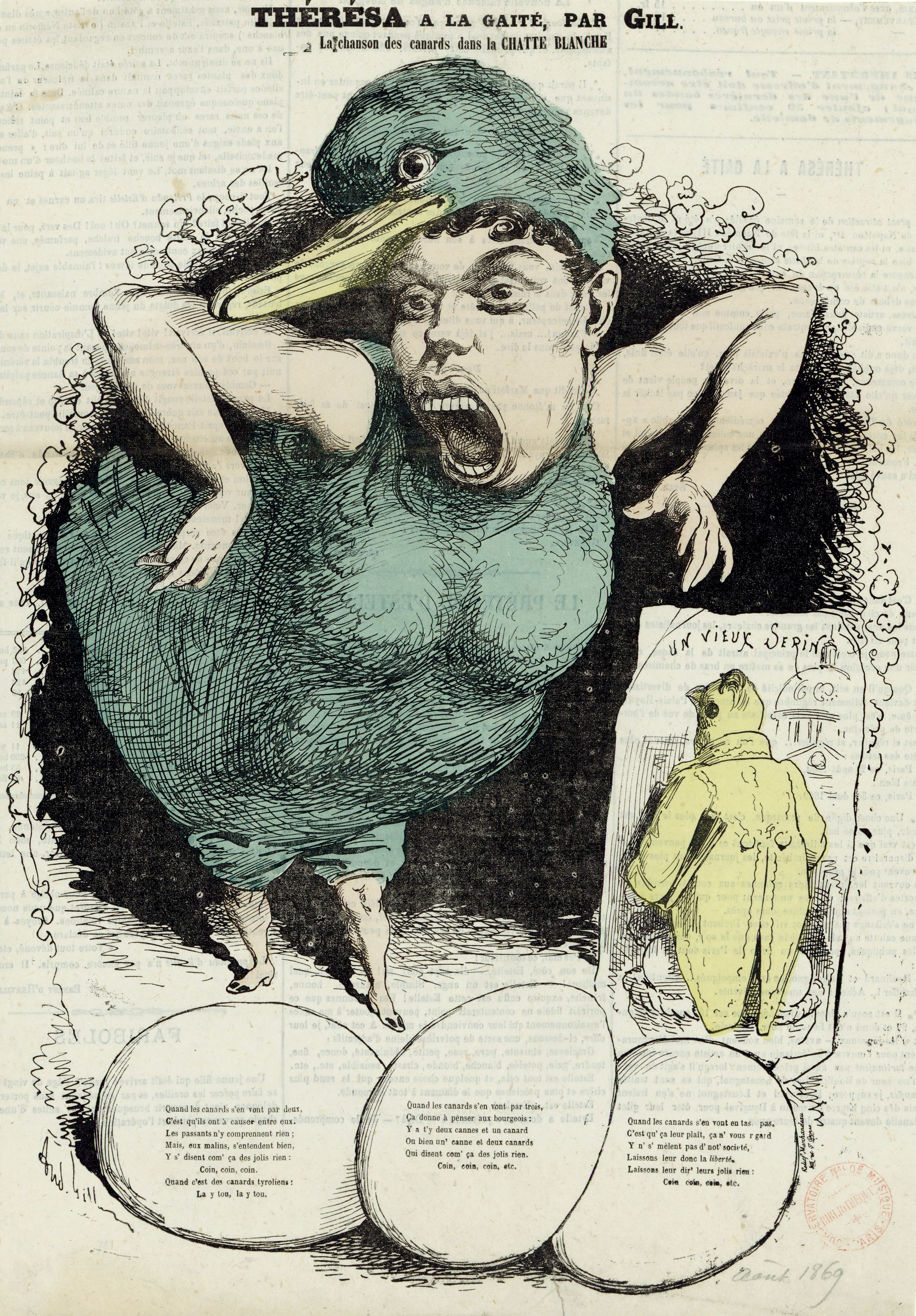 Caricature of French singer Thérésa